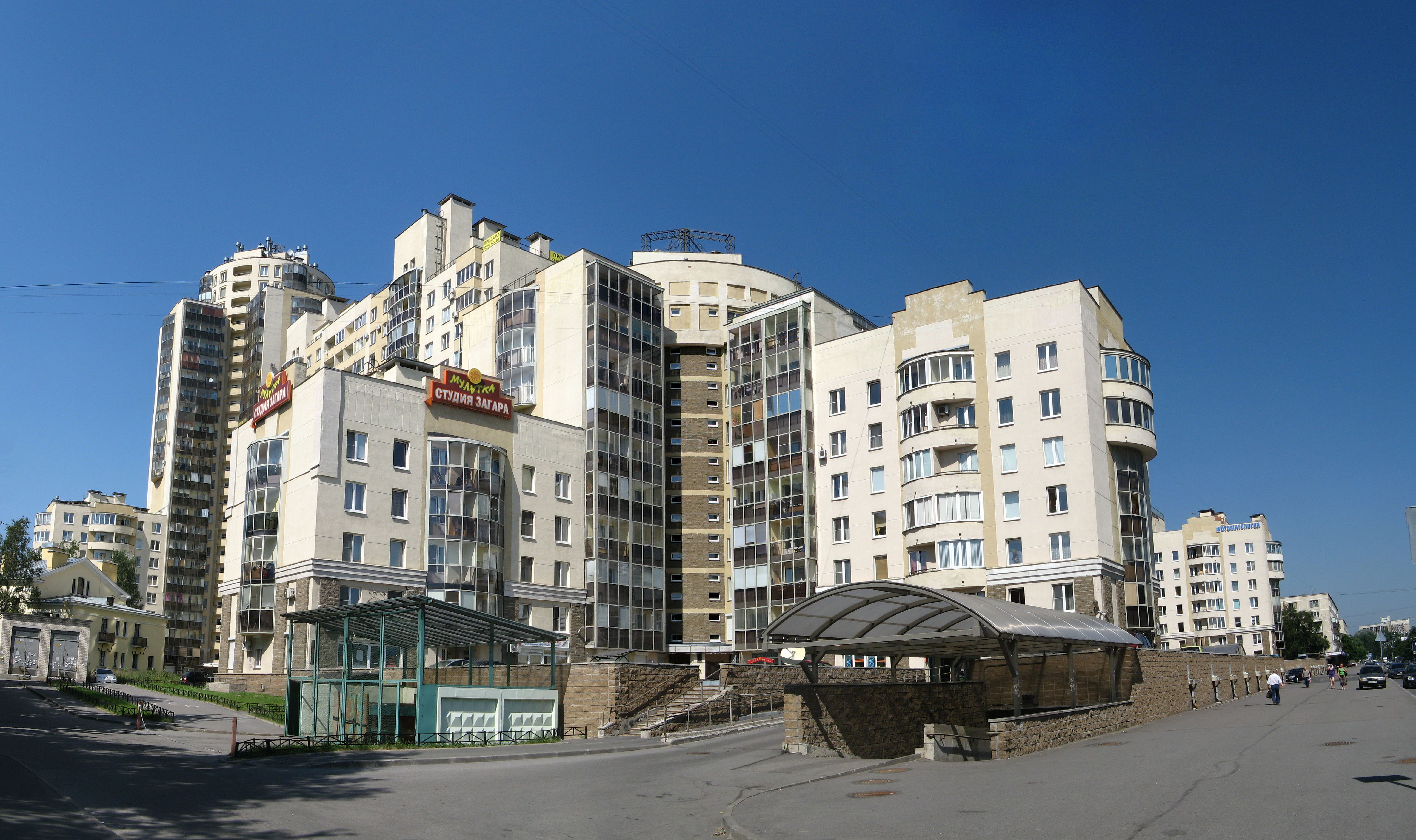 Lanskoj residential area, Saint-Petersburg